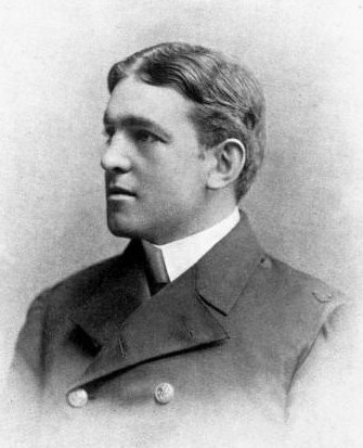 Sub-Lieut. Ernest Henry Shackleton, R.N.R, aged 27.